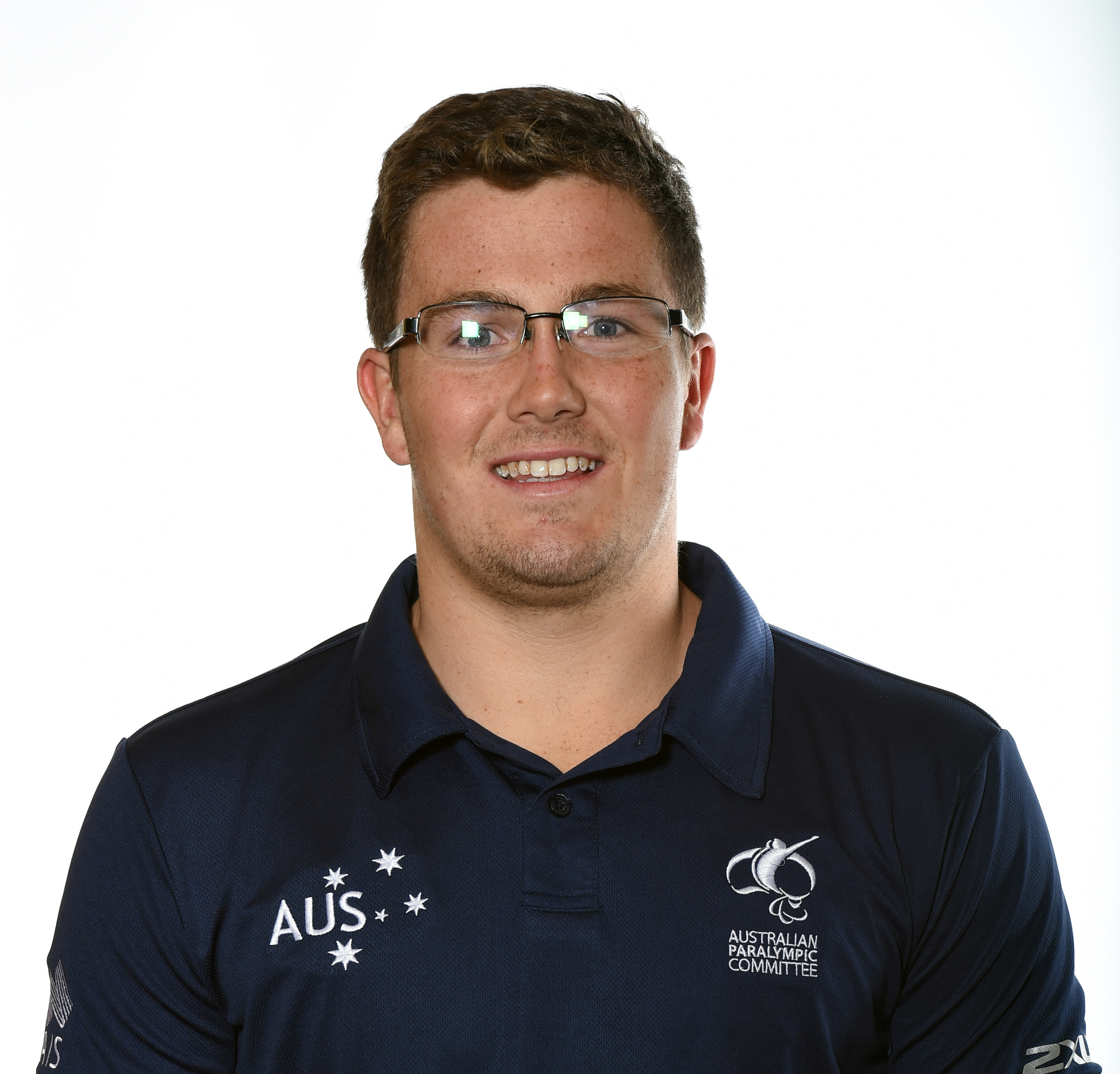 Portrait of 2016 Australian Paralympic Team member Jacob Templeton